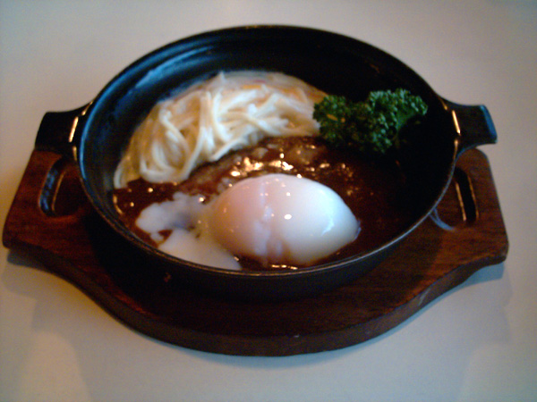 Demiglace Egg Hamburg Gusto Restaurant in Japan photography day, 2006/11/21 photography person kici すかいらーく